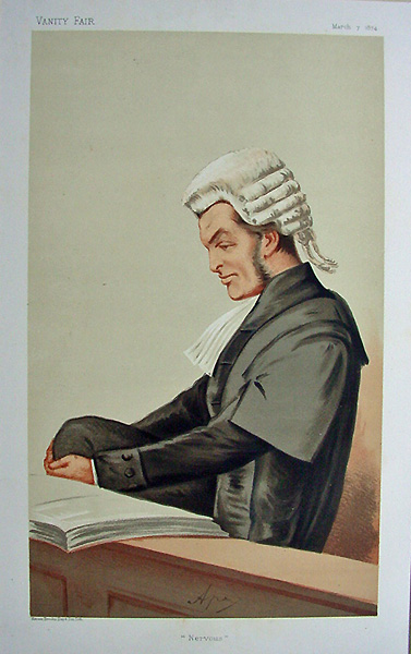 Caricature of Sir Henry James MP (1828-1911). Caption read "Nervous".